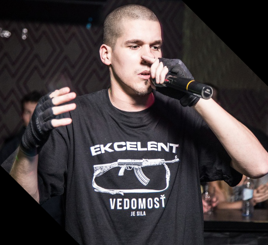 Ekcelent performing in Prague, 2014